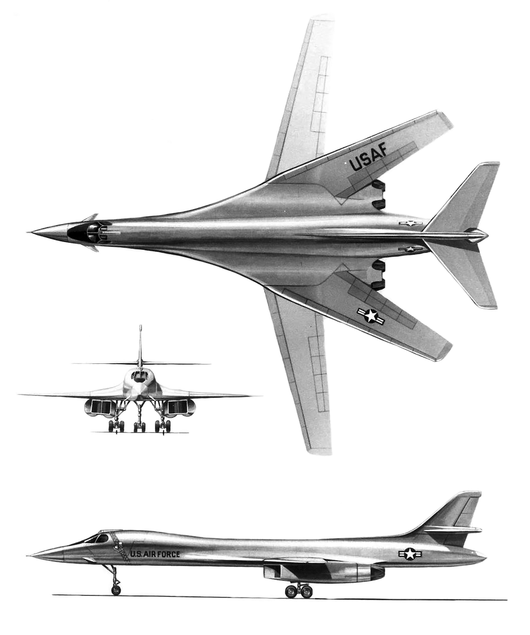 Orthographic views of B-1A Bomber